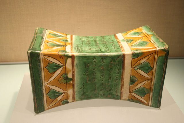 Chinese porcelain pillow from the Jurchen-led Jin Dynasty (1115-1234 AD) of medieval China.